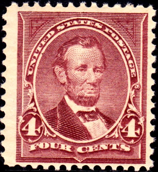 US Postage, Abrahan Lincoln, Bureau issue of 1898, Rose Brown, 4c